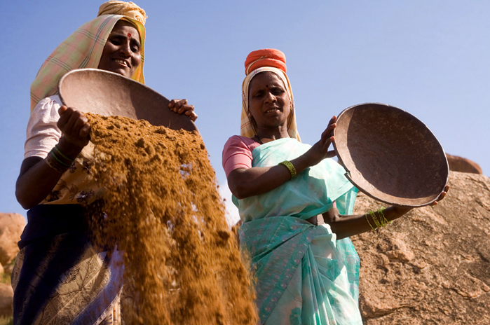 Women using bowls to clear soil from the ruins in Hampi, India.